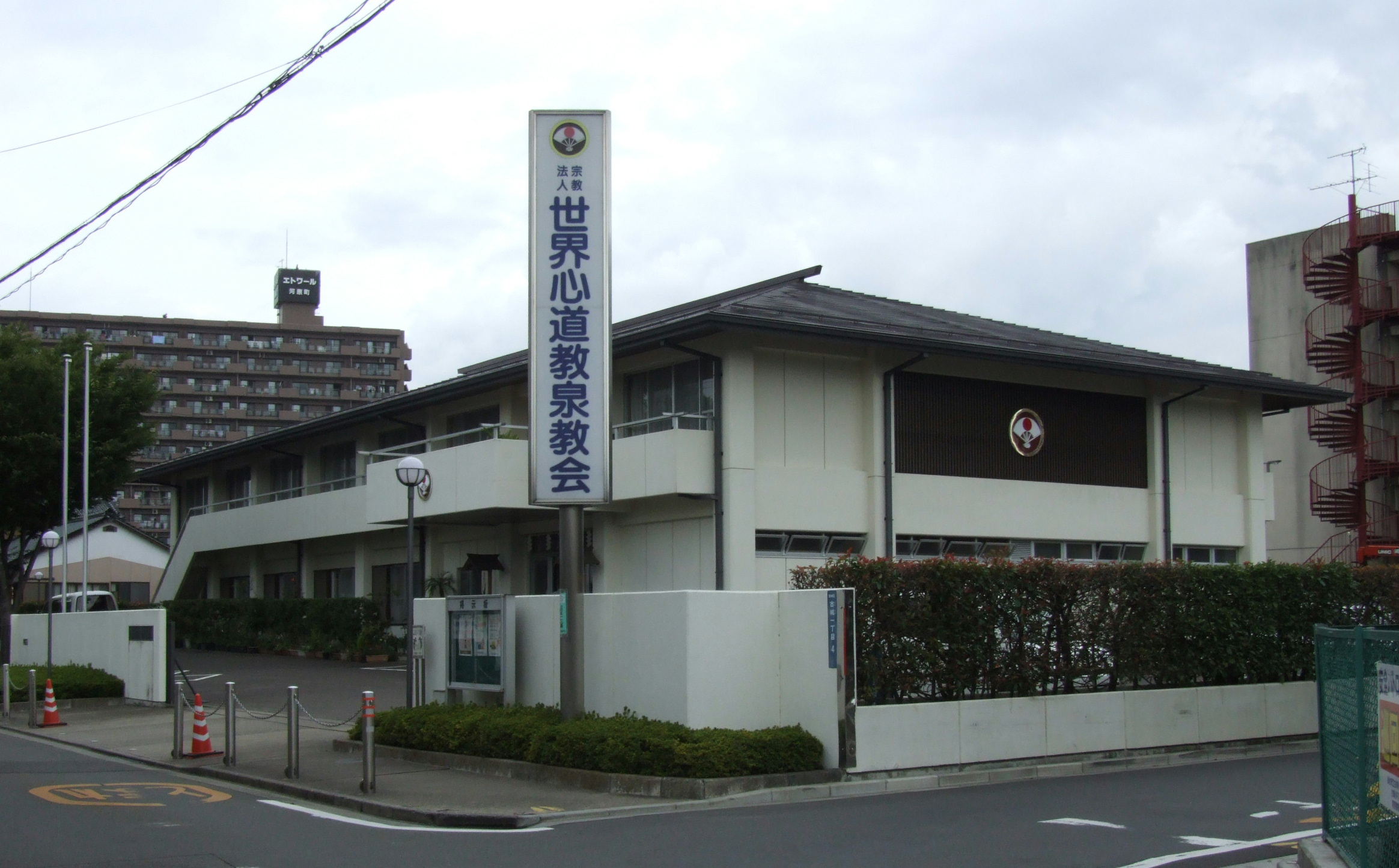 Izumi Church of Sekai Shindō-kyō, one of new sects of Shintō. Furujiro 1 chōme, Wakabayashi ward, Sendai, Miyagi prefecture, Japan.